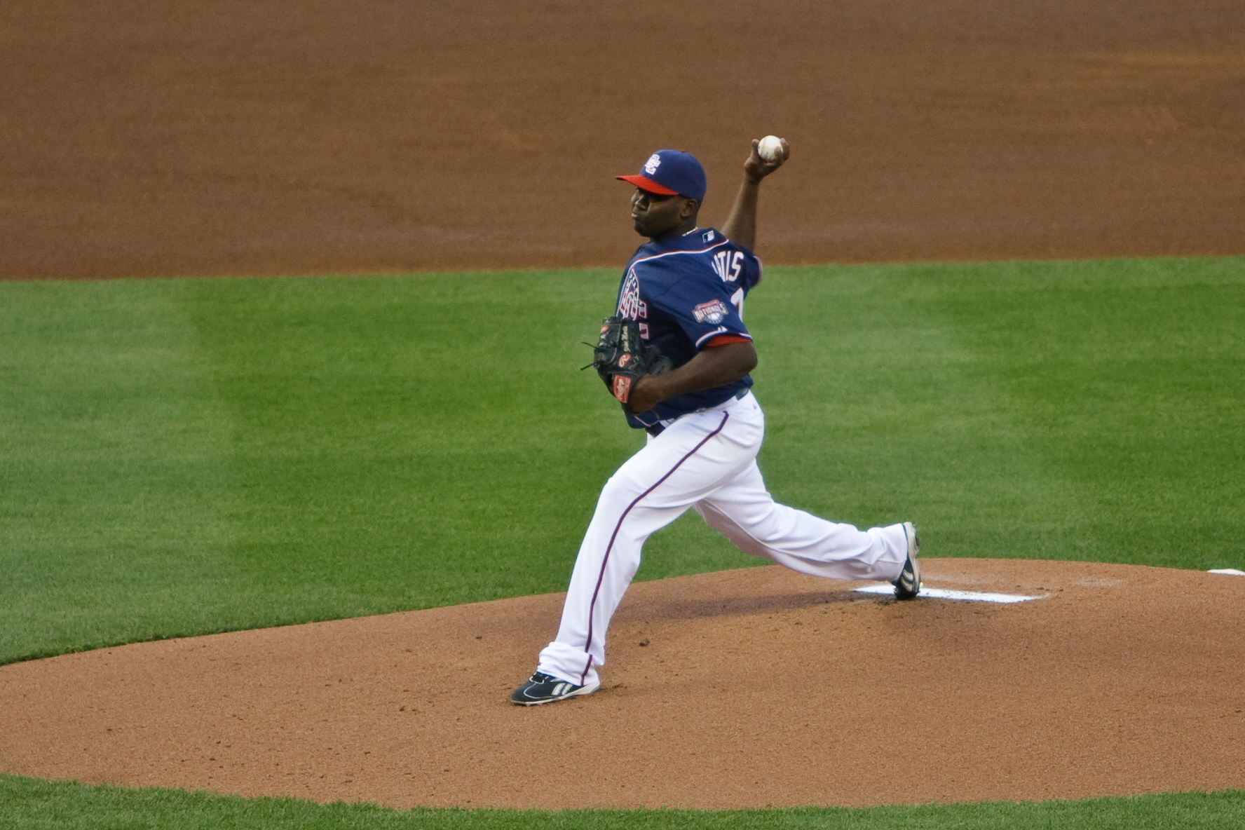 Shairon Martis is the starting pitcher for the Nats' first win of 2009.